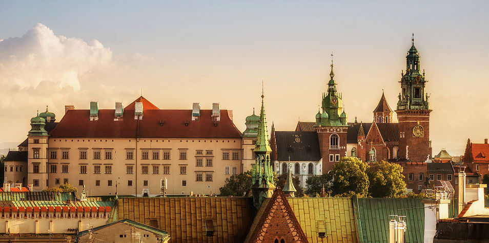 Cropped version of Zespol Wzgórza Wawelskiego 009.jpg